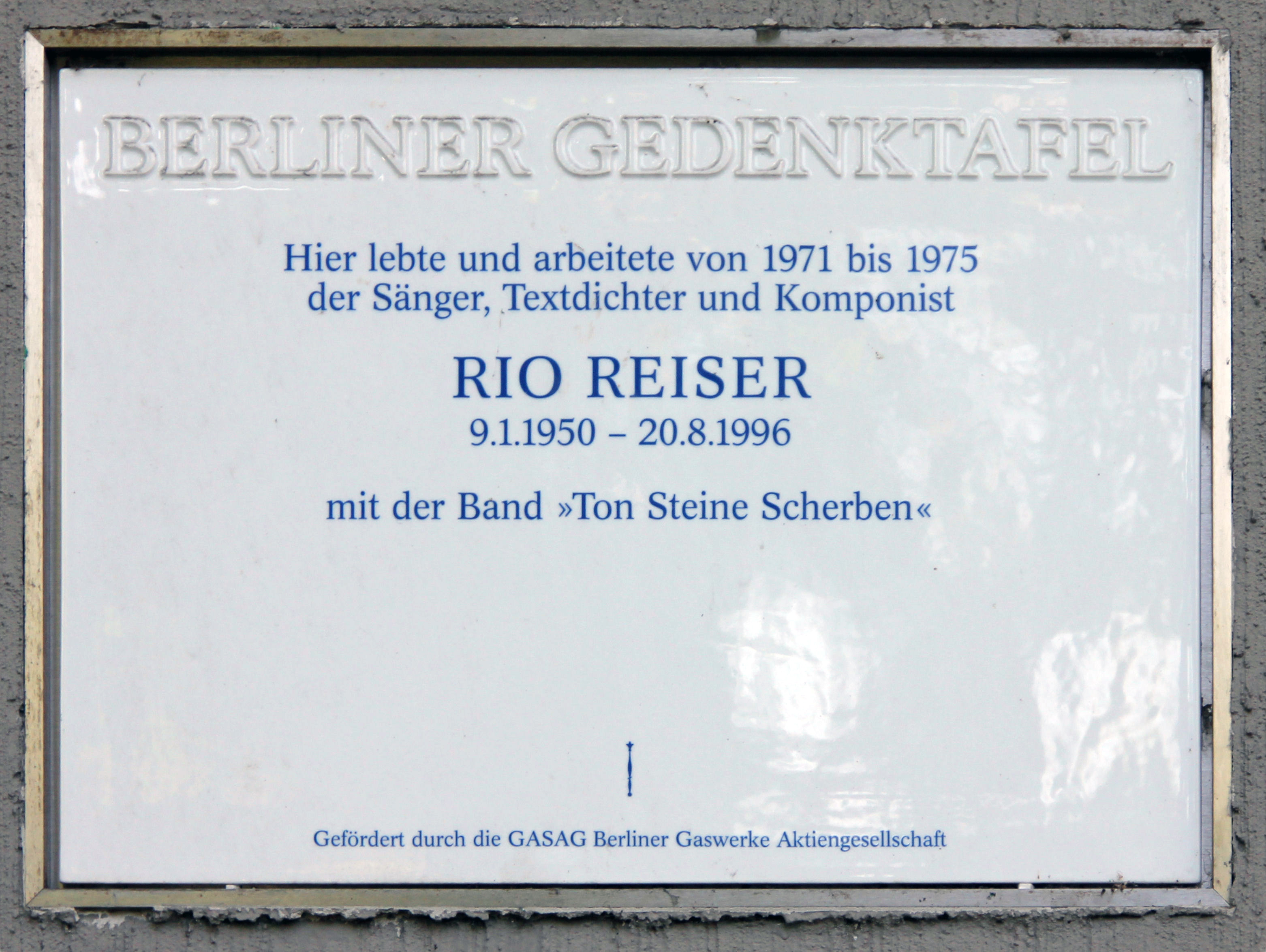 Berlin memorial plaque, Rio Reiser, Tempelhofer Ufer 32, Berlin-Kreuzberg, Germany